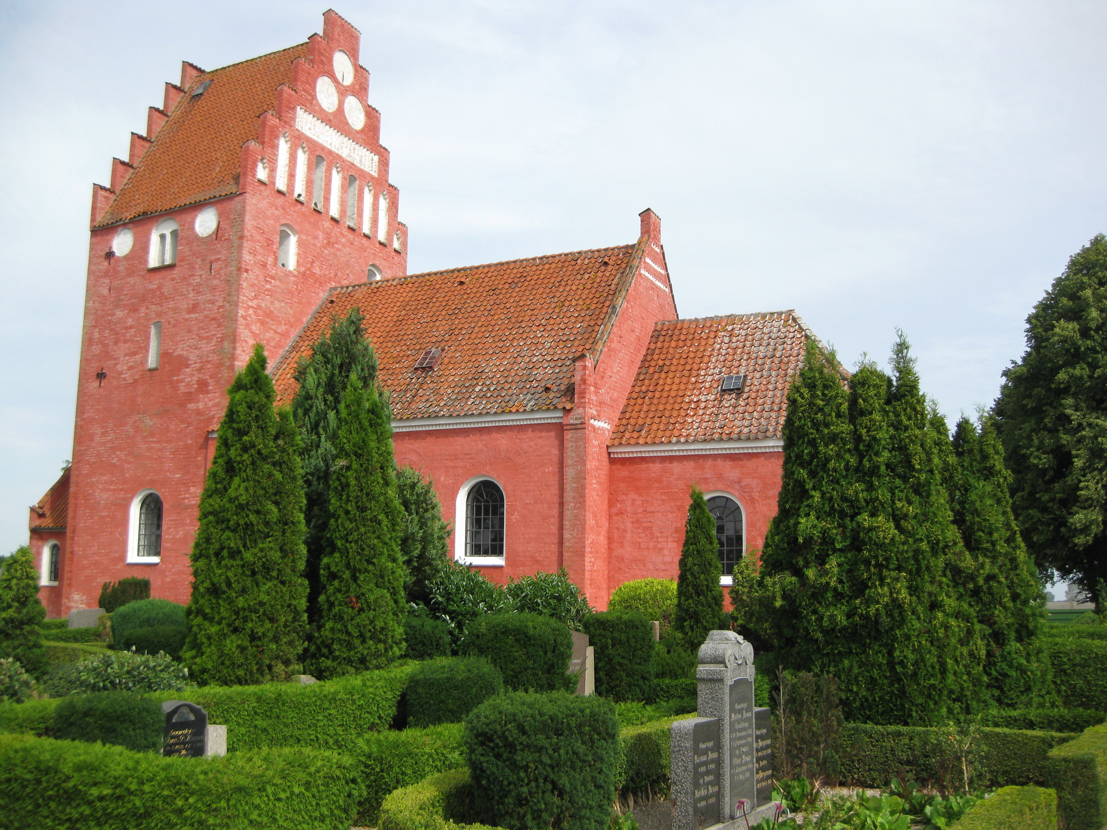 The church "Falkerslev Kirke" in the village "Falkerslev". The village is located on the island Falster in east Denmark.